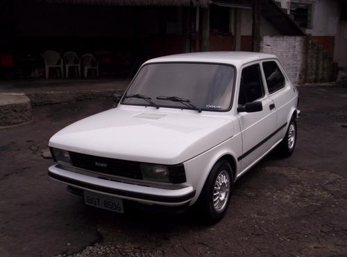 Fiat 147 Brazil. This was the first commercial neat ethanol fuel car sold in the Brazilian market in 1979.